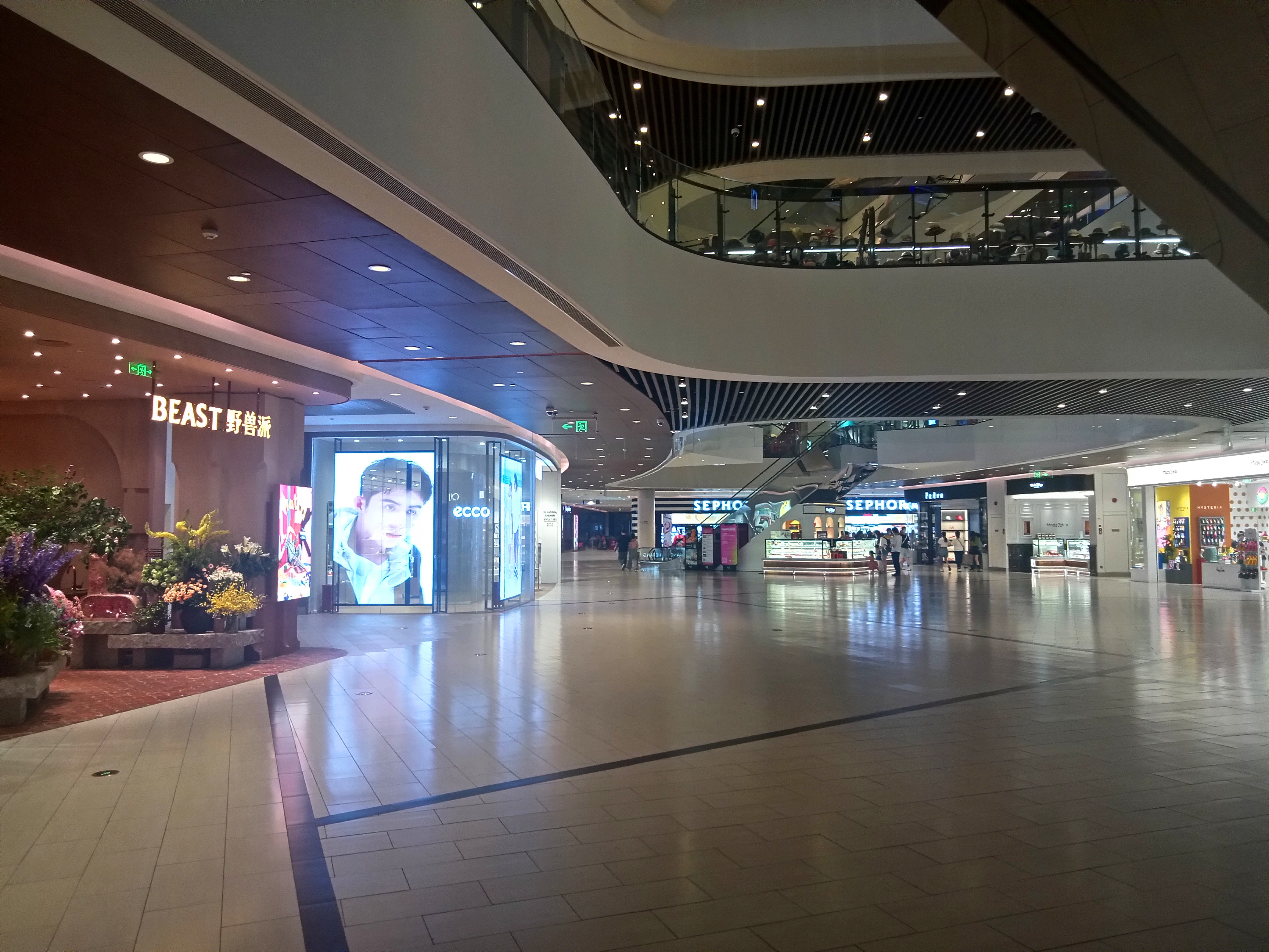 Hangzhou Kerry Centre